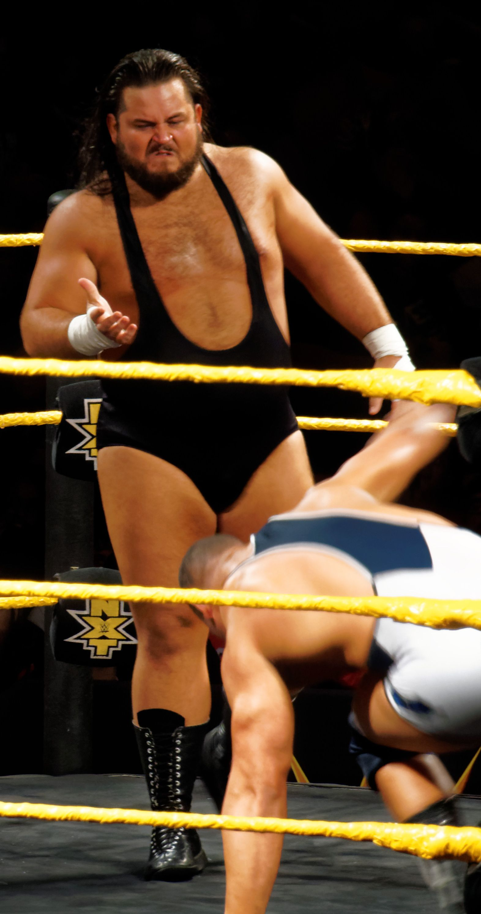 Bull Dempsey at a NXT house show in San Jose, March 2015